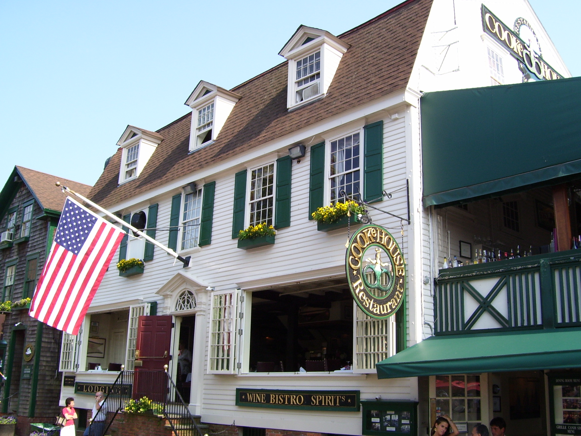 2008 photo of the Clark Cooke House in Newport, Rhode Island.